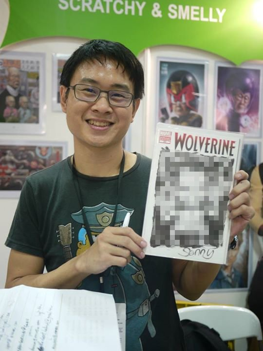 Malaysian comics artist Sonny Liew at the Singapore Toy, Game and Comic Convention 2014.